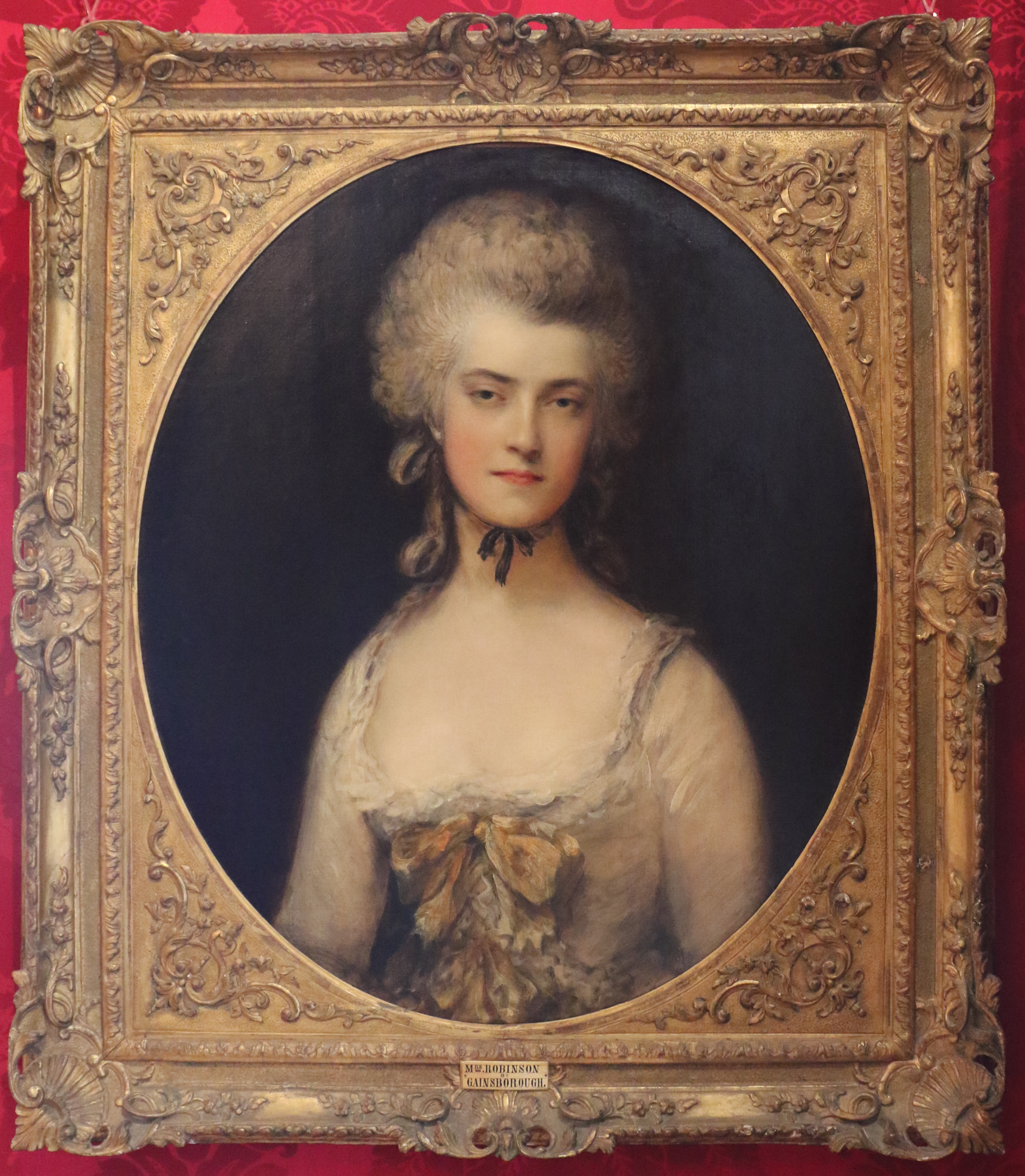 Mrs Mary Robinson, poet, by Thomas Gainsborough. 1781.